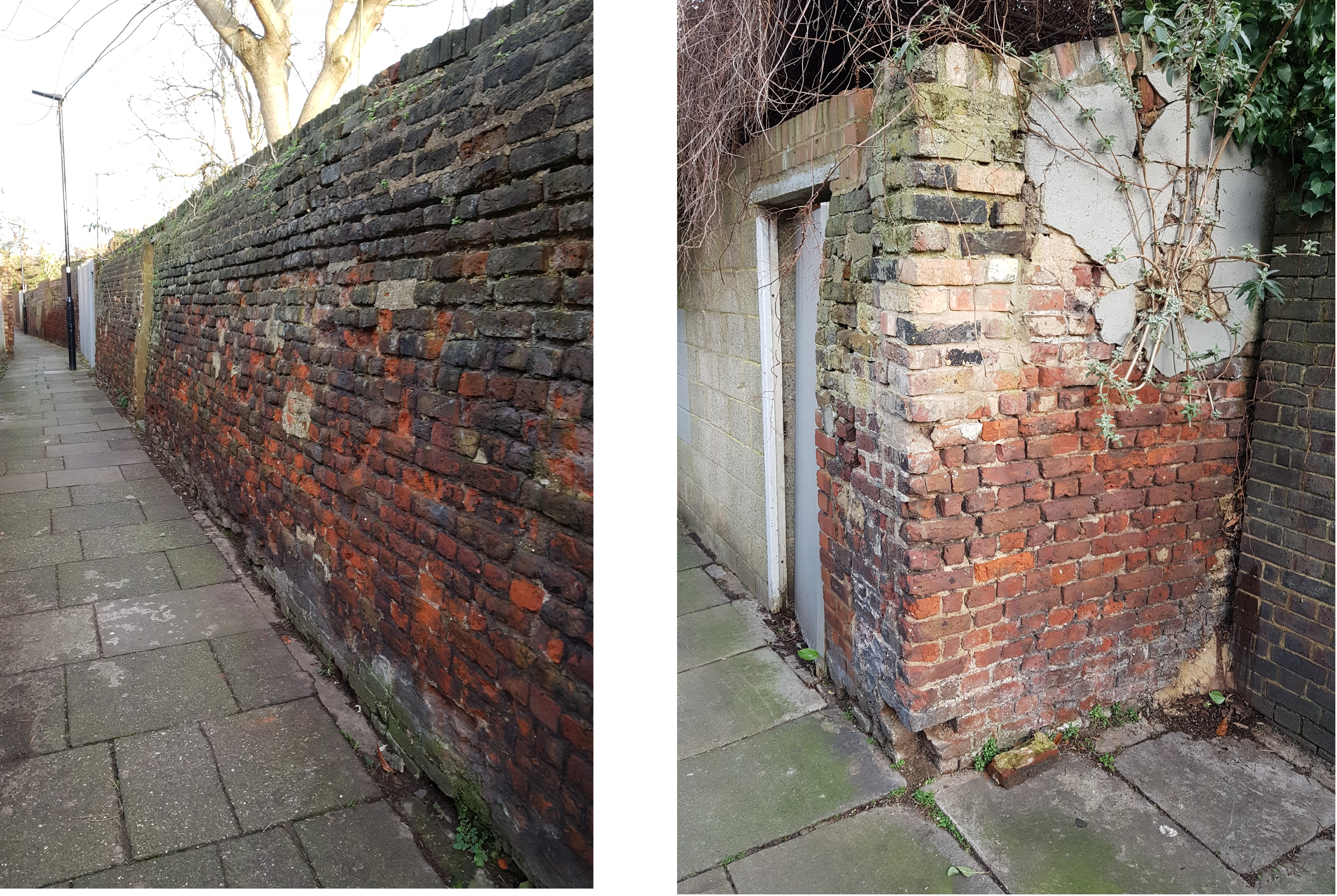 Manor Farm Wall